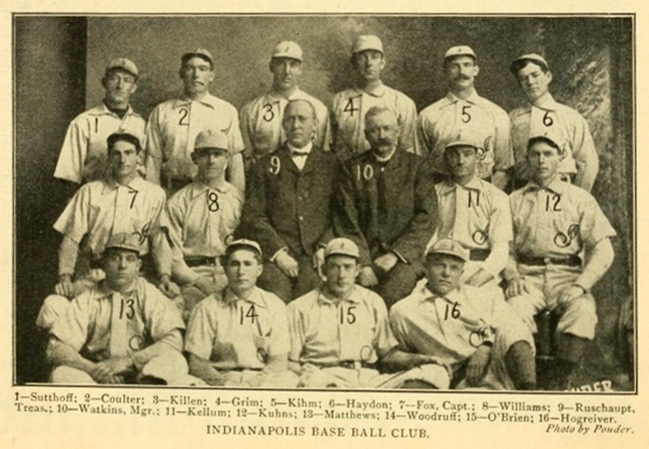 The 1902 Indianapolis Indians, a minor league baseball team from Indianapolis, Indiana